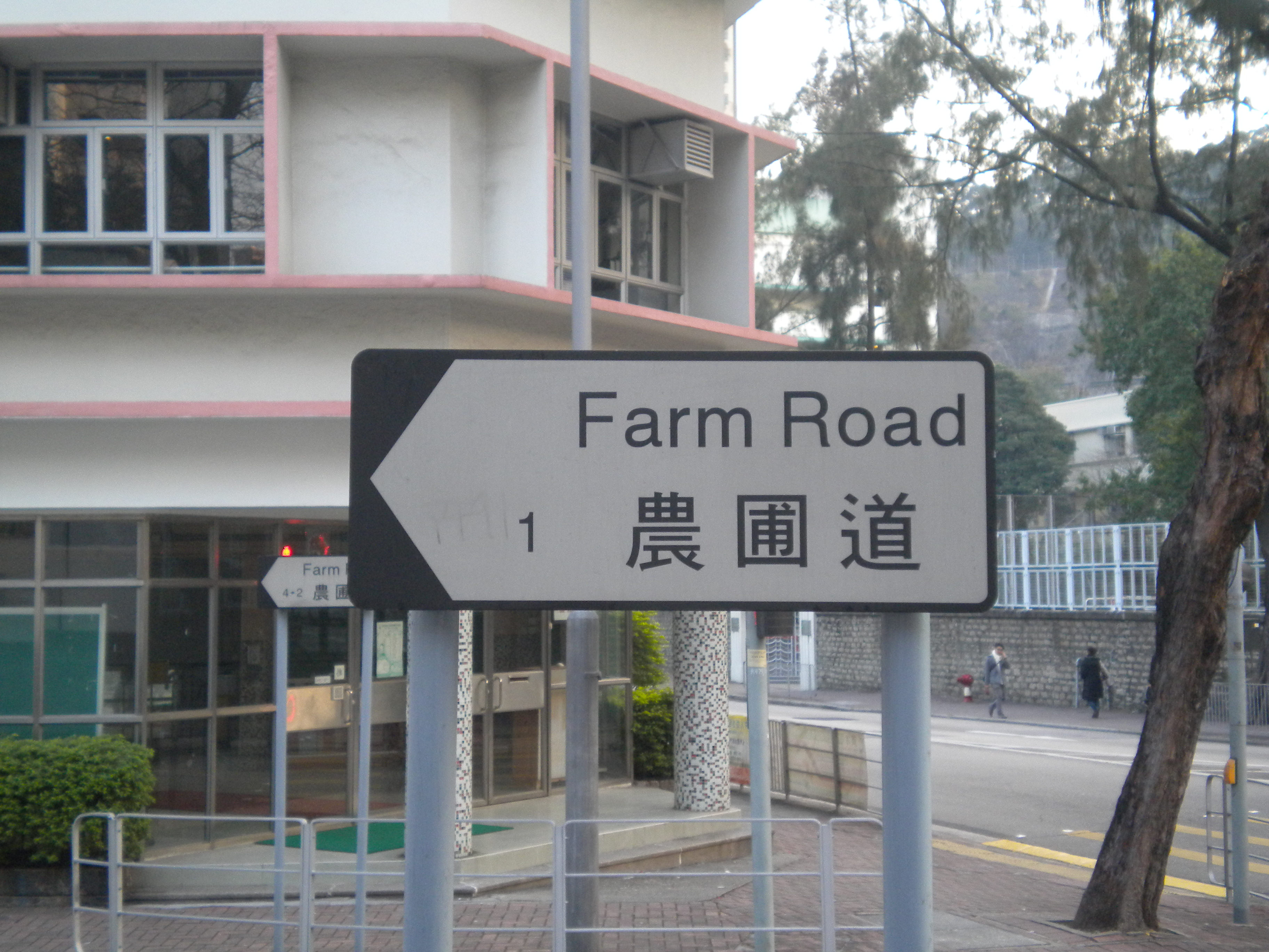 九龍城zh:農圃道